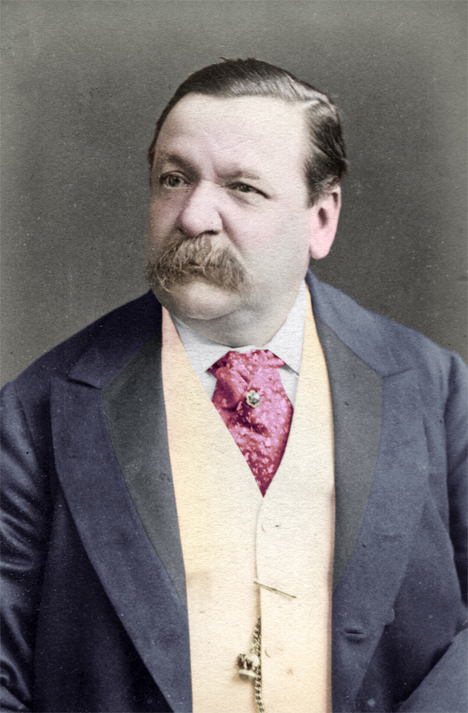 George Augustus Sala (1828-1895), journalist and bohemian